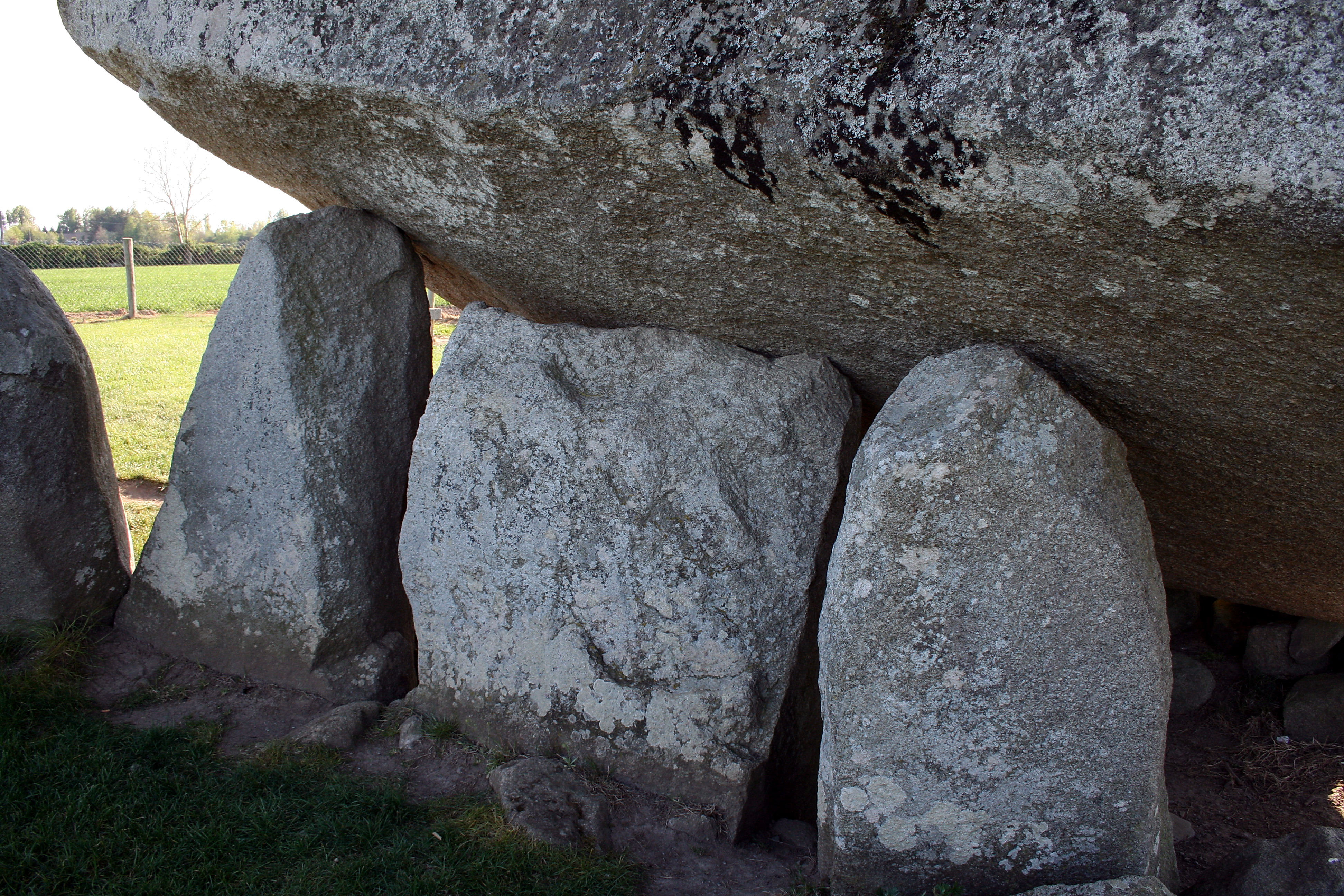 Supporting the capstone are the two portal stones and in the centre the "gate-stone" which was used to seal the entrance. Left is a flanking stone.